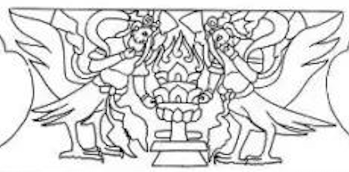 The holy fire on a lotus, guarded by two priests half-bird, half-human wearing the traditional padam (a piece of cloth in front of the mouth).